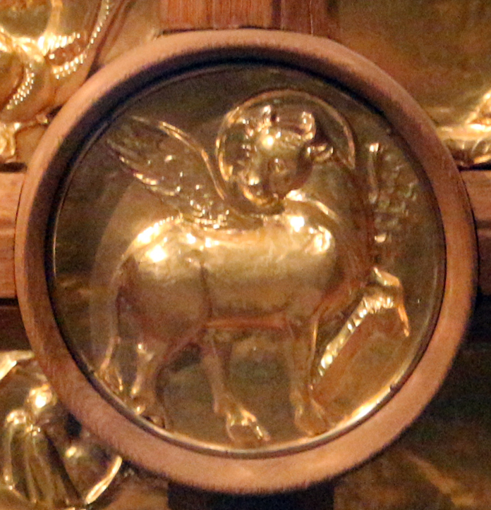 Pala d’oro (Aachen)